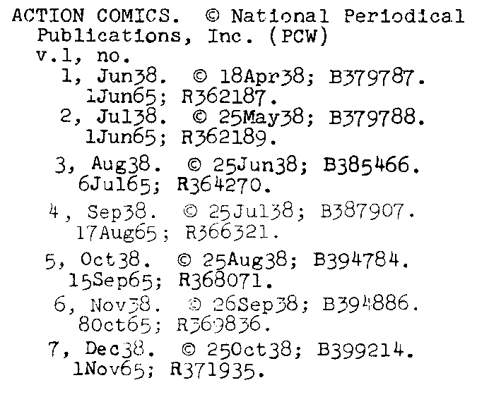 Extract from the the Catalog of Copyright Entries showing renewals for Action Comics.